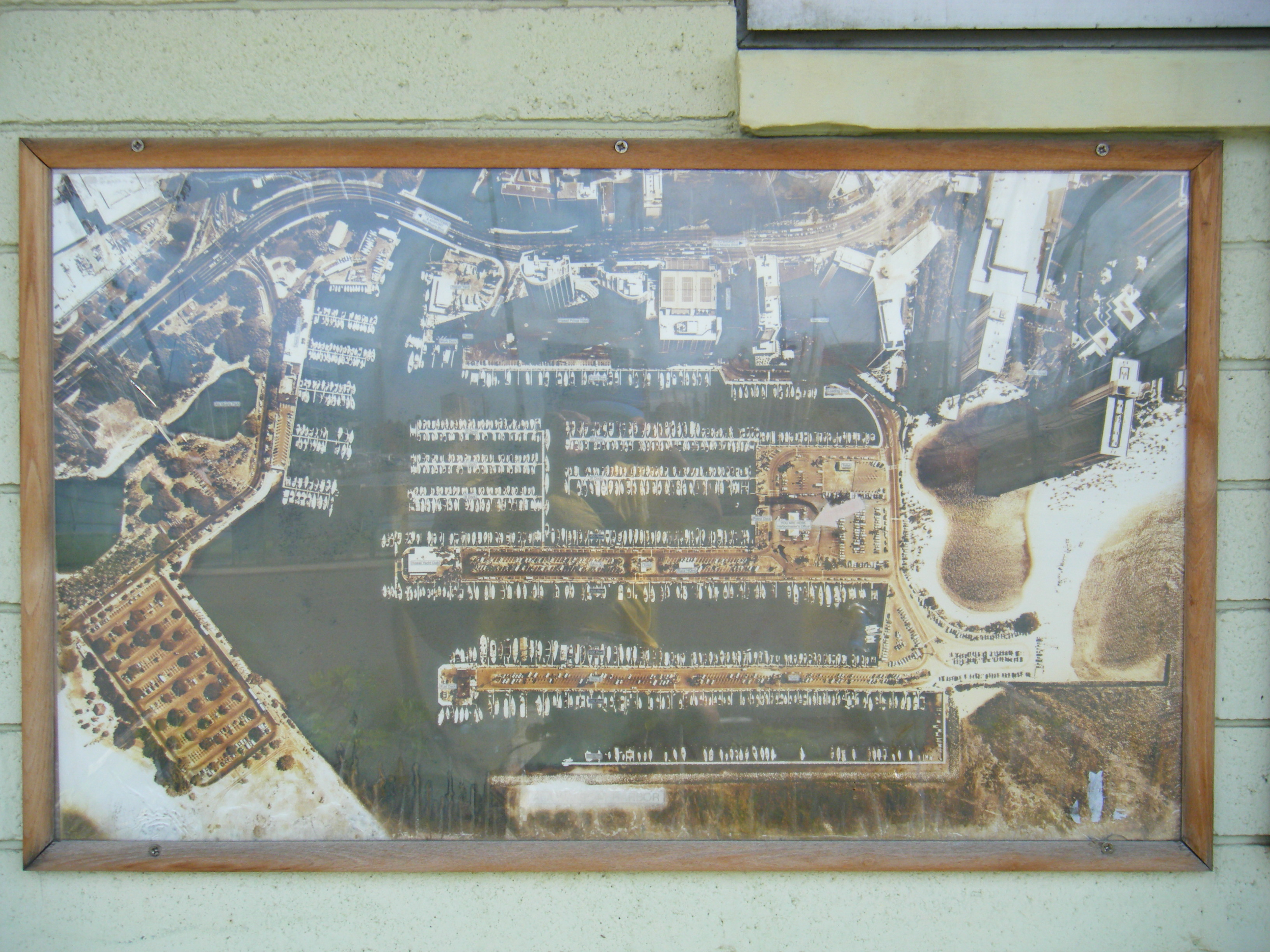 Ala Wai Harbor satellite photo